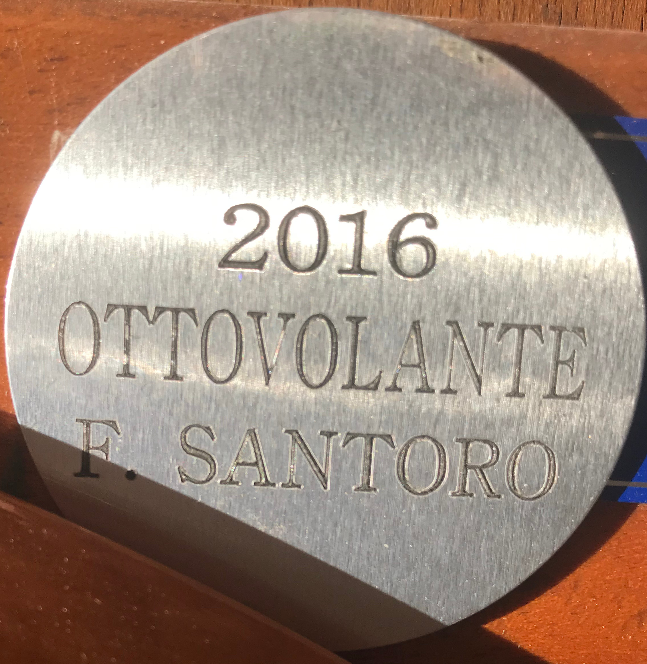 Patch on the trophy